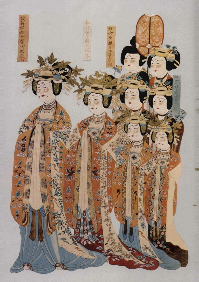 Buddhist donors in T'ang costume, from Mo-kao Cave.